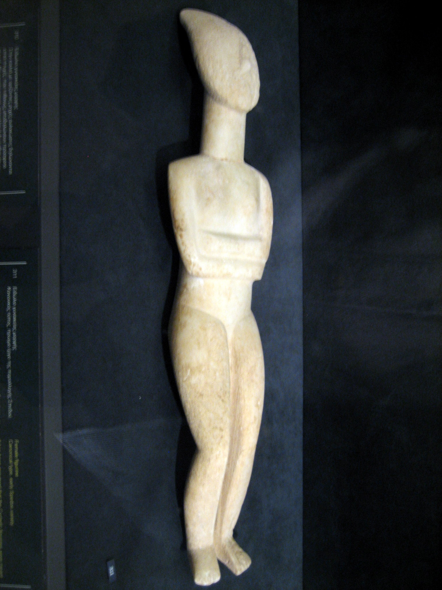 Cycladic female figurine, White marble, mottled with tan ochre encrustation, Height 47.2 cm, Goulandris Collection, Athens, Greece, Inventory #311